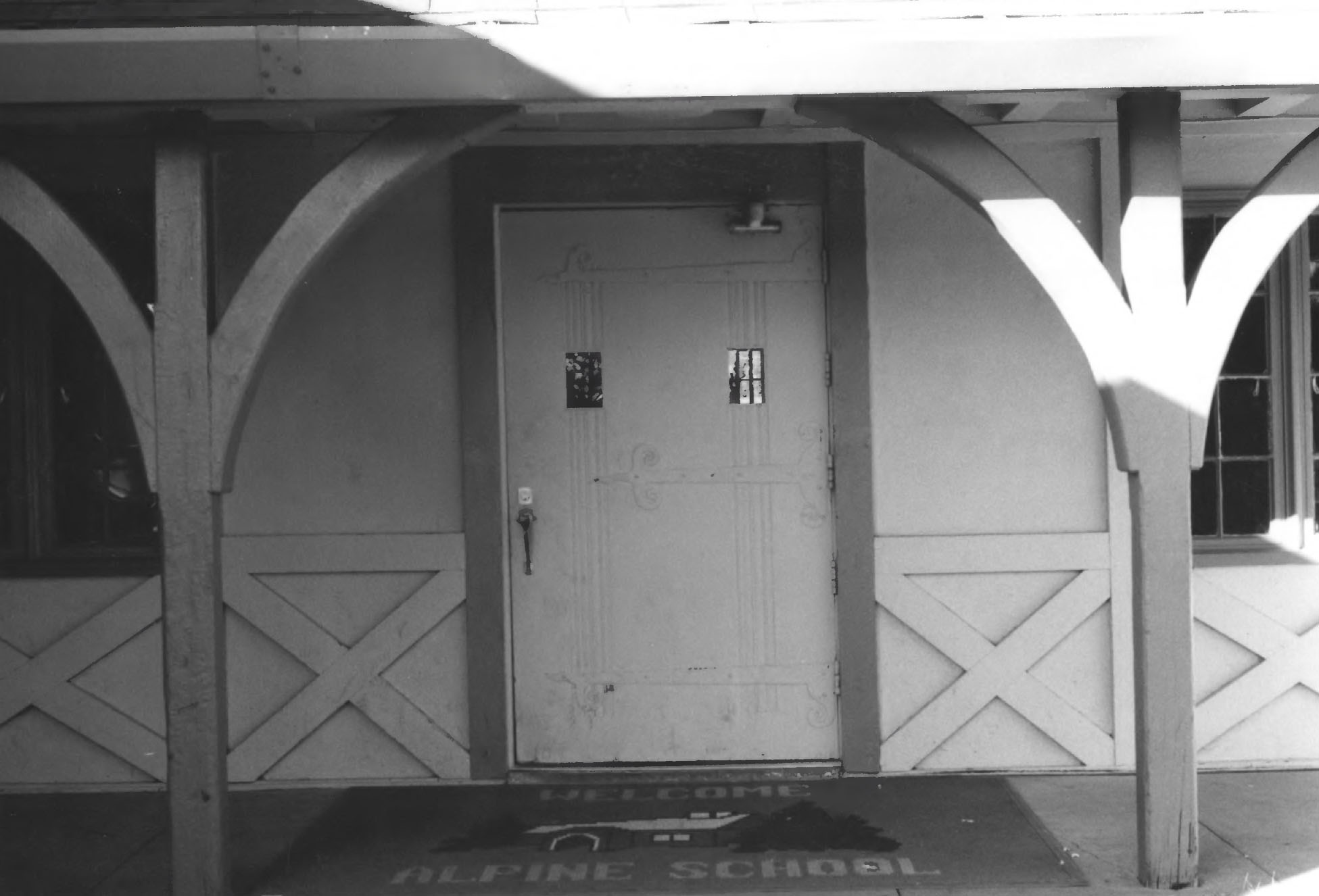 Front door of former LDS chapel on grounds of the Alpine Elementary School